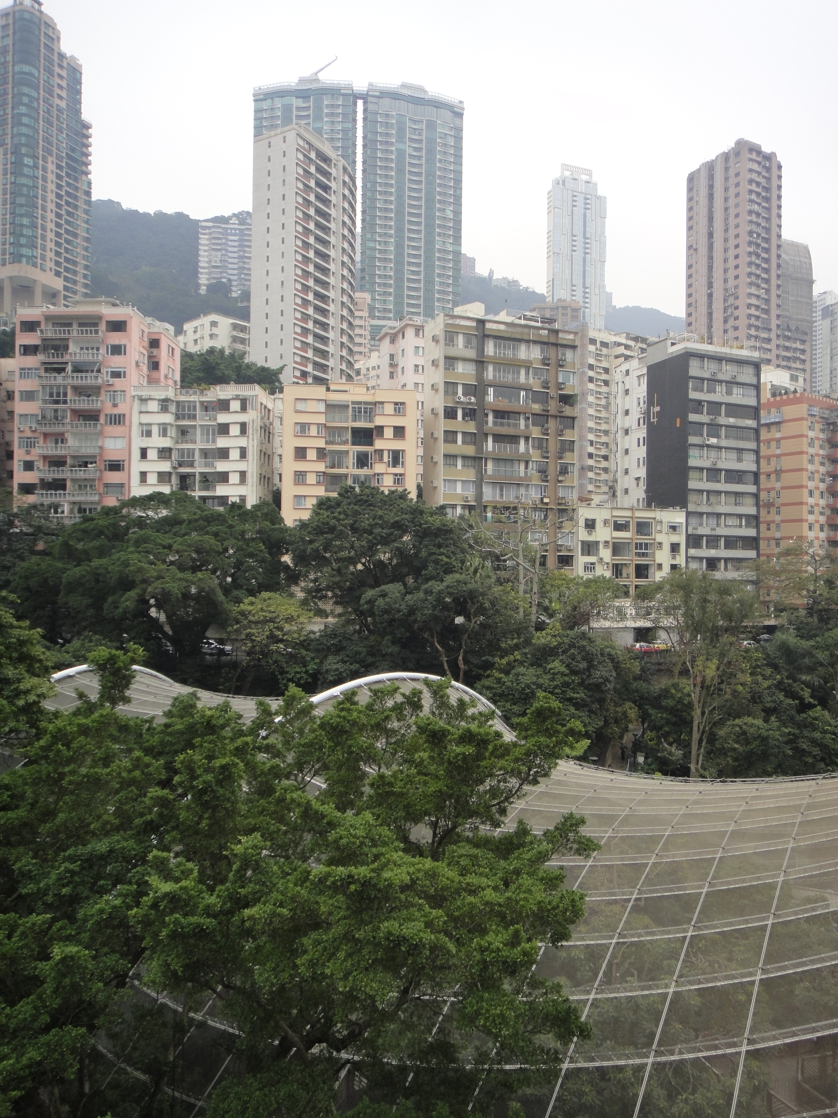 Edward Youde Aviary View